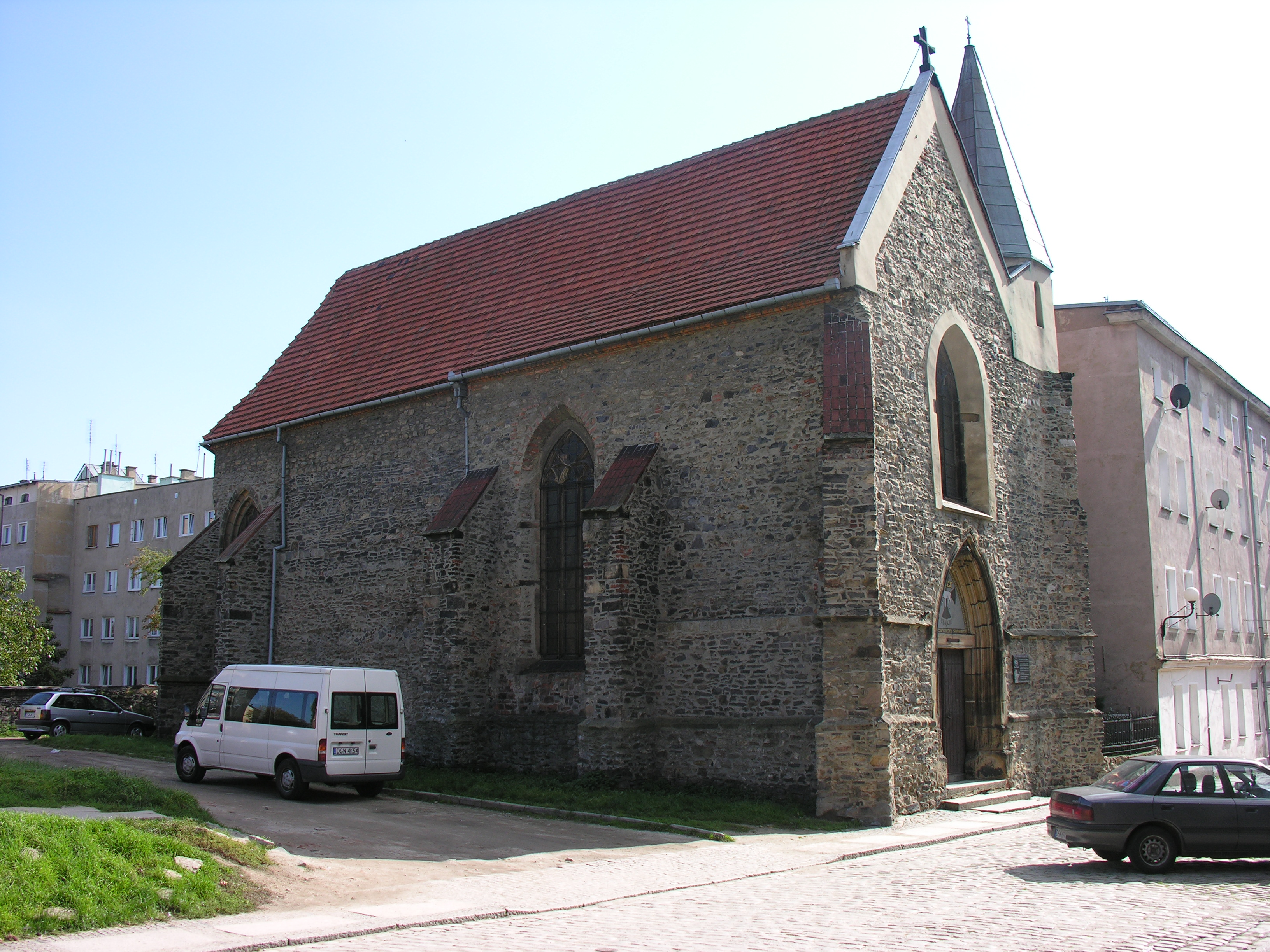 St. Barbara Church, former synagogue